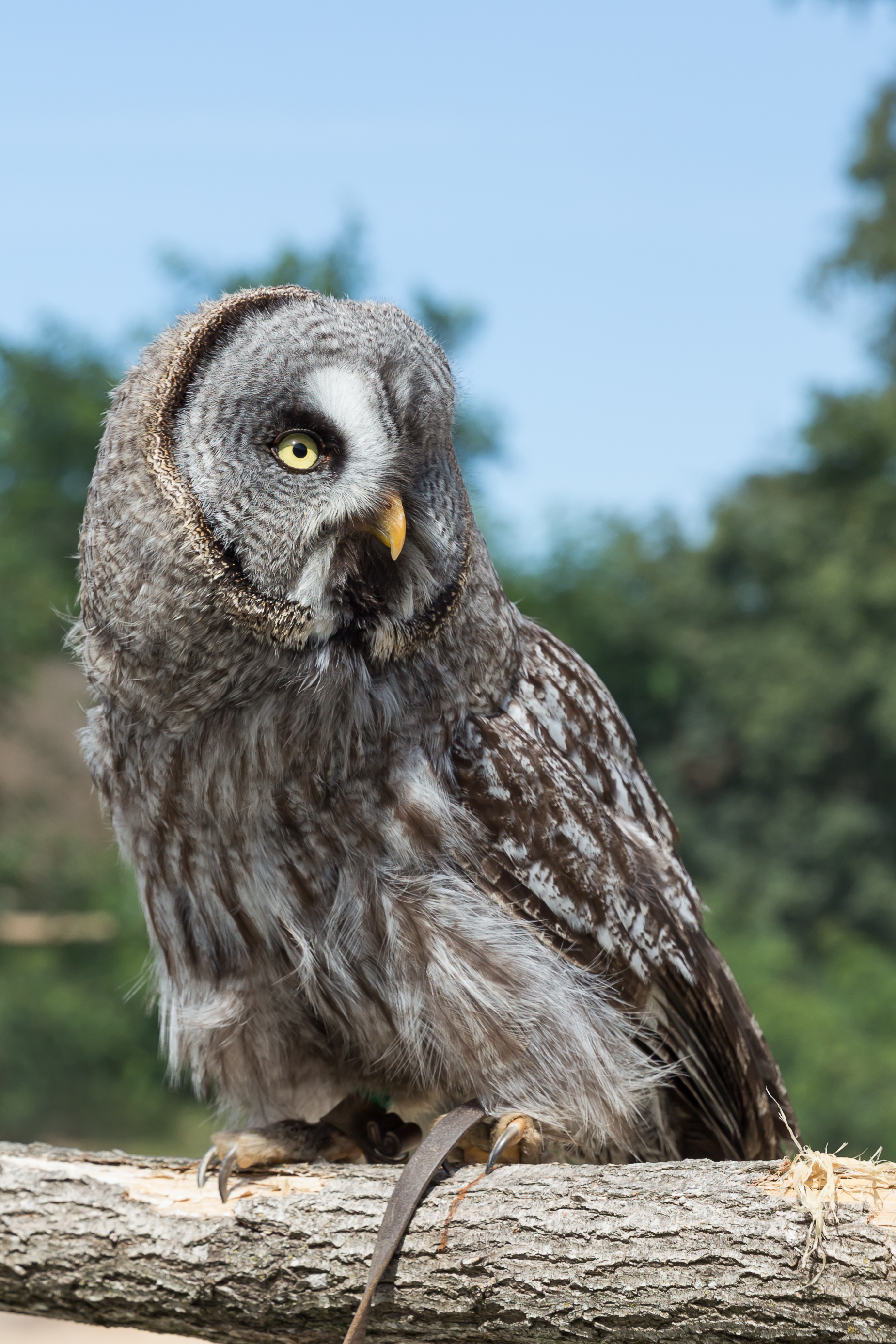 Strix nebulosa (Great grey owl) in the spectacle of birds in the ZooParc de Beauval in Saint-Aignan-sur-Cher, France.